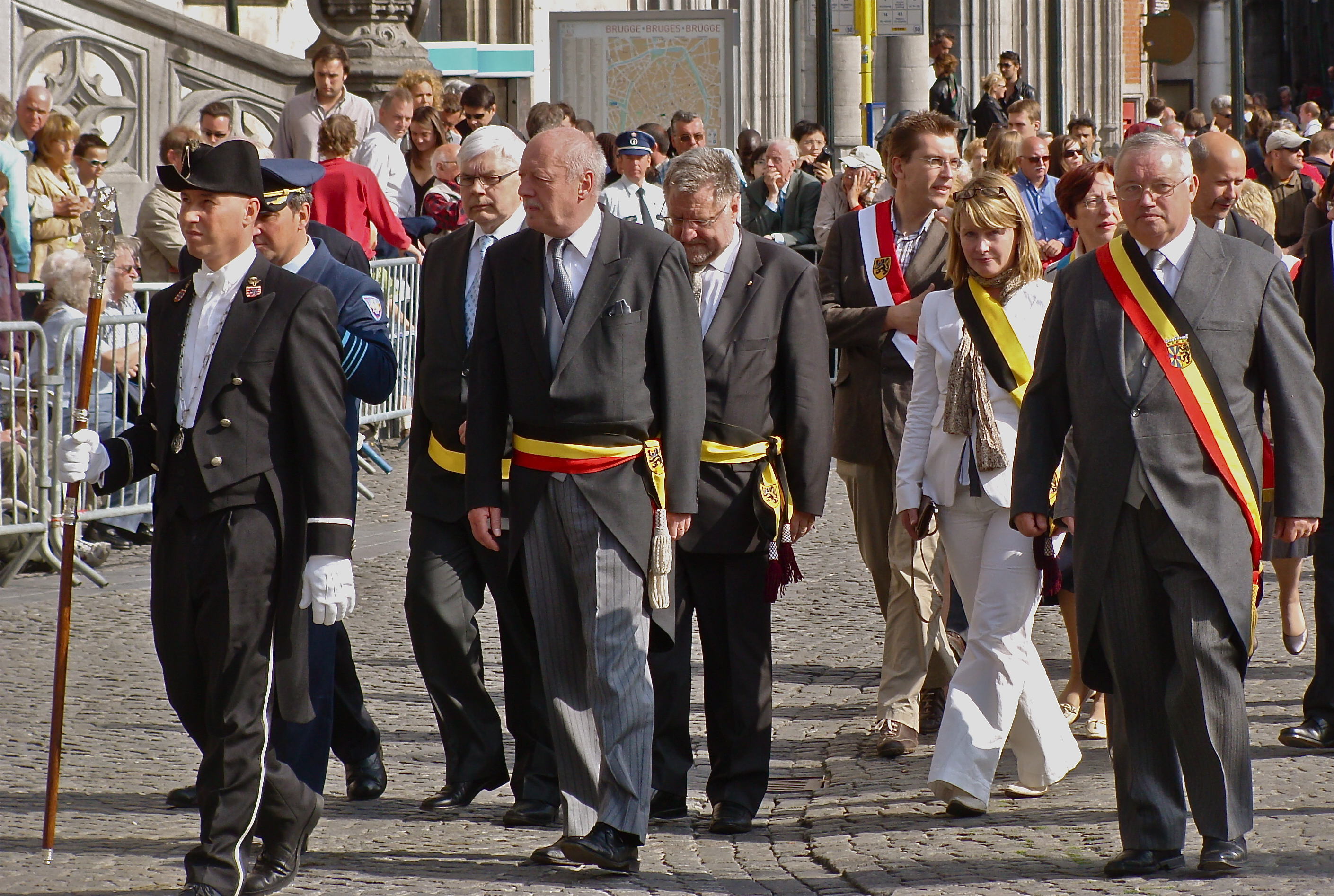 Wearing a morning coat, Mr Patrick MOENAERT, mayor of Bruges (left), and Mr Paul BREYNE , Governor of Western Flanders (right). Behind, some elected people